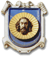 Coat of arms of Teplice city, Teplice District, Czech Republic. Převzato z anglické Wikipedie. 2005-08-06 12:46 Miraceti 100×113×8 (9160 bytes) Erb města Teplice . Převzato z :en:Image:Erb.gif|anglické Wikipedie . coatofarms